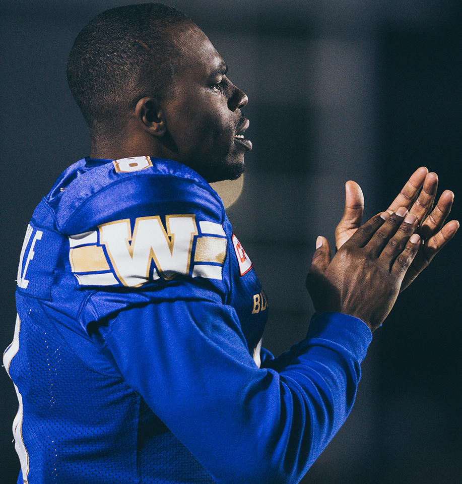 Chris Randle (8) of the Winnipeg Blue Bombers during the pre-season game against the Ottawa REDBLACKS at TD Place in Ottawa, ON on Monday June 13, 2016. (Photo: Johany Jutras)